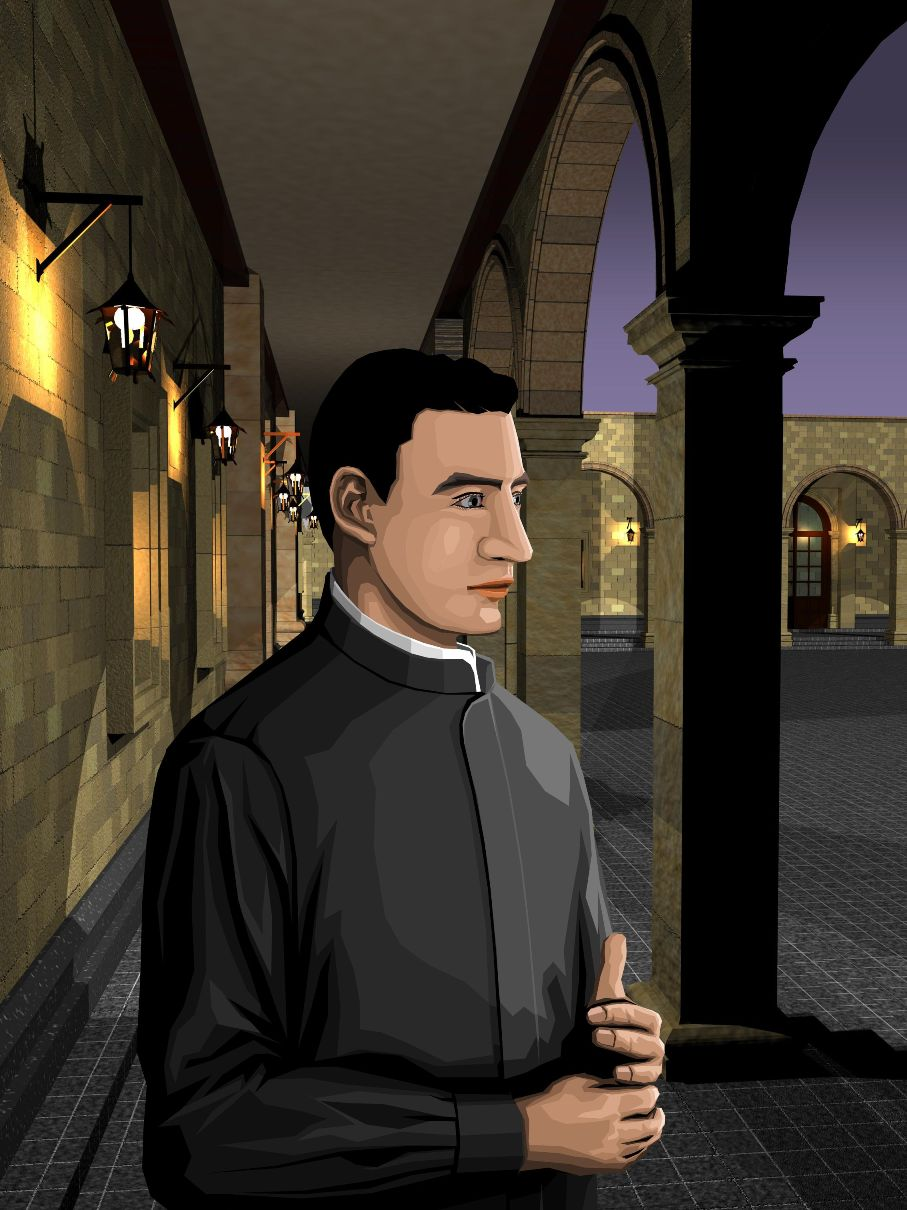 Alexsandro Bencivenni, an academic at Kyoto Imperial University in the 1940s.